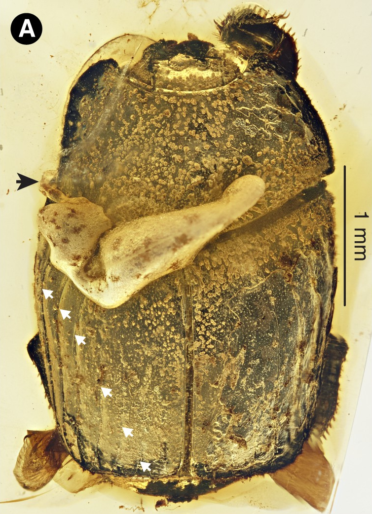 Promyrmister kistneri holotype in Burmese amber (A) Dorsal habitus of holotype CNU-008021 with origin of exudate globule (black arrow) and elytral striae (white arrows) indicated; the three lateral striae are complete (top three arrows), the three medial striae appear incomplete.